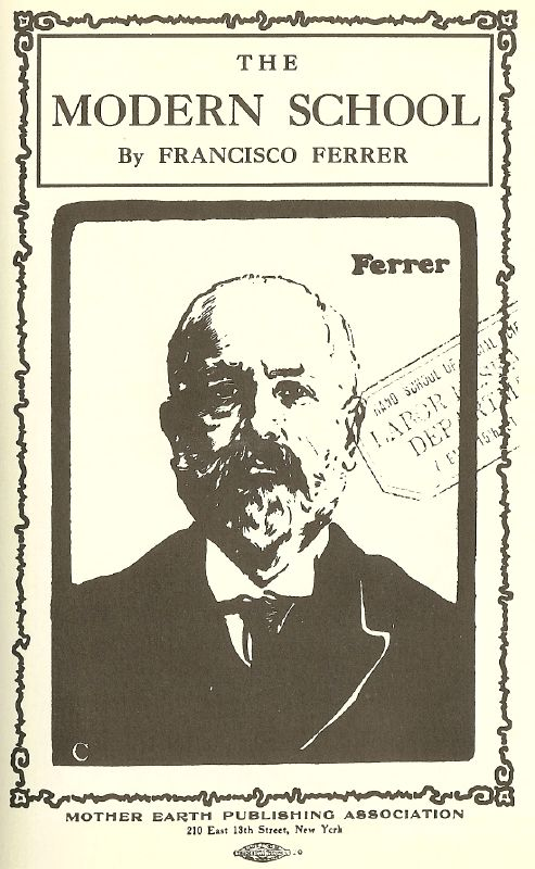 The Modern School, by Francisco Ferrer, translated by Voltairine de Cleyre